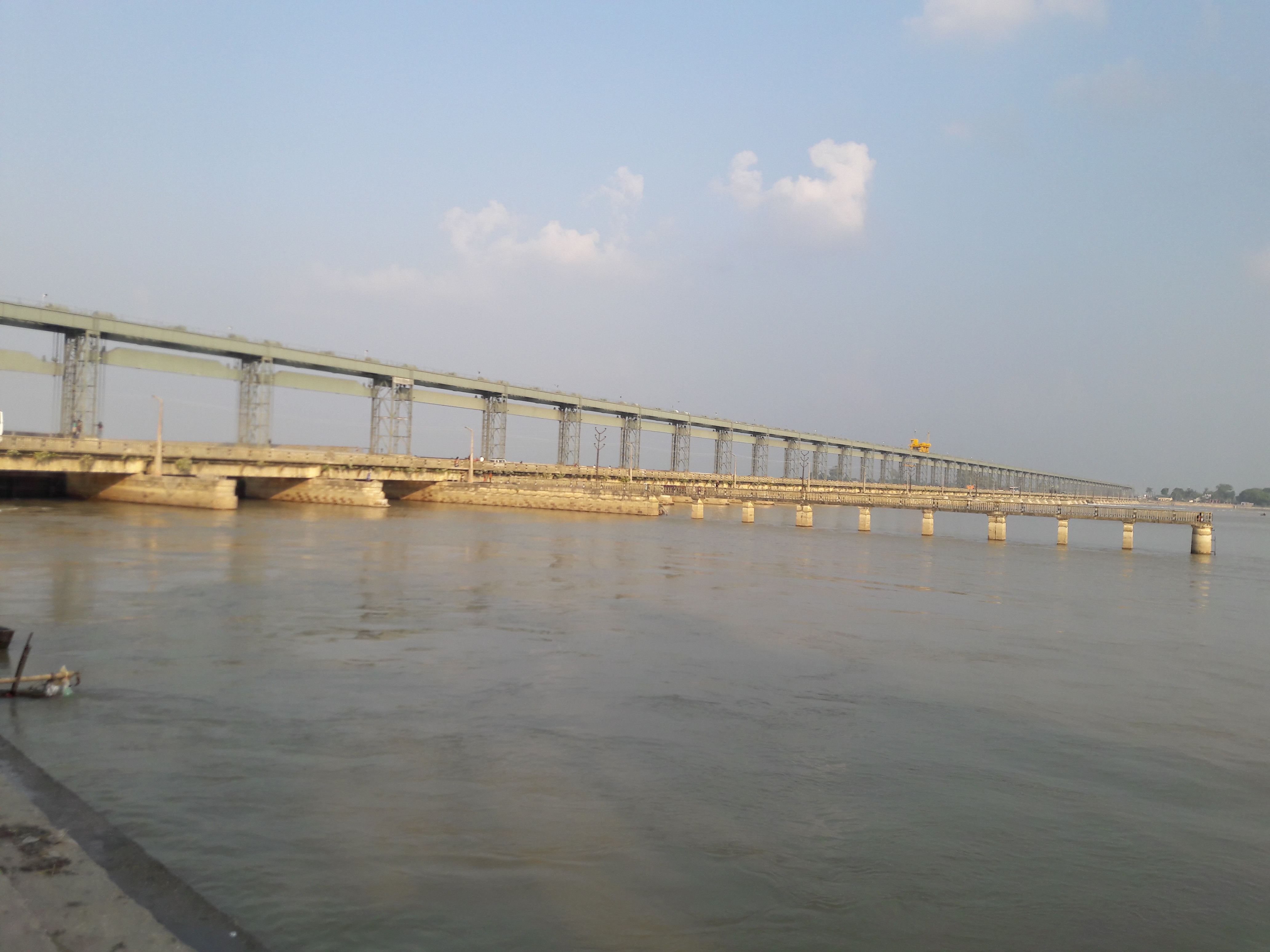 Koshi Barrage as viewed from South-West Bank of Barrage